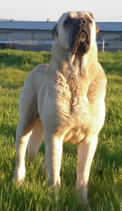 a purebred malakli